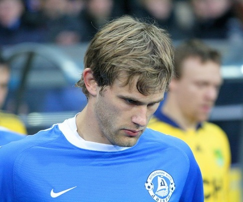 Ivan Strinić